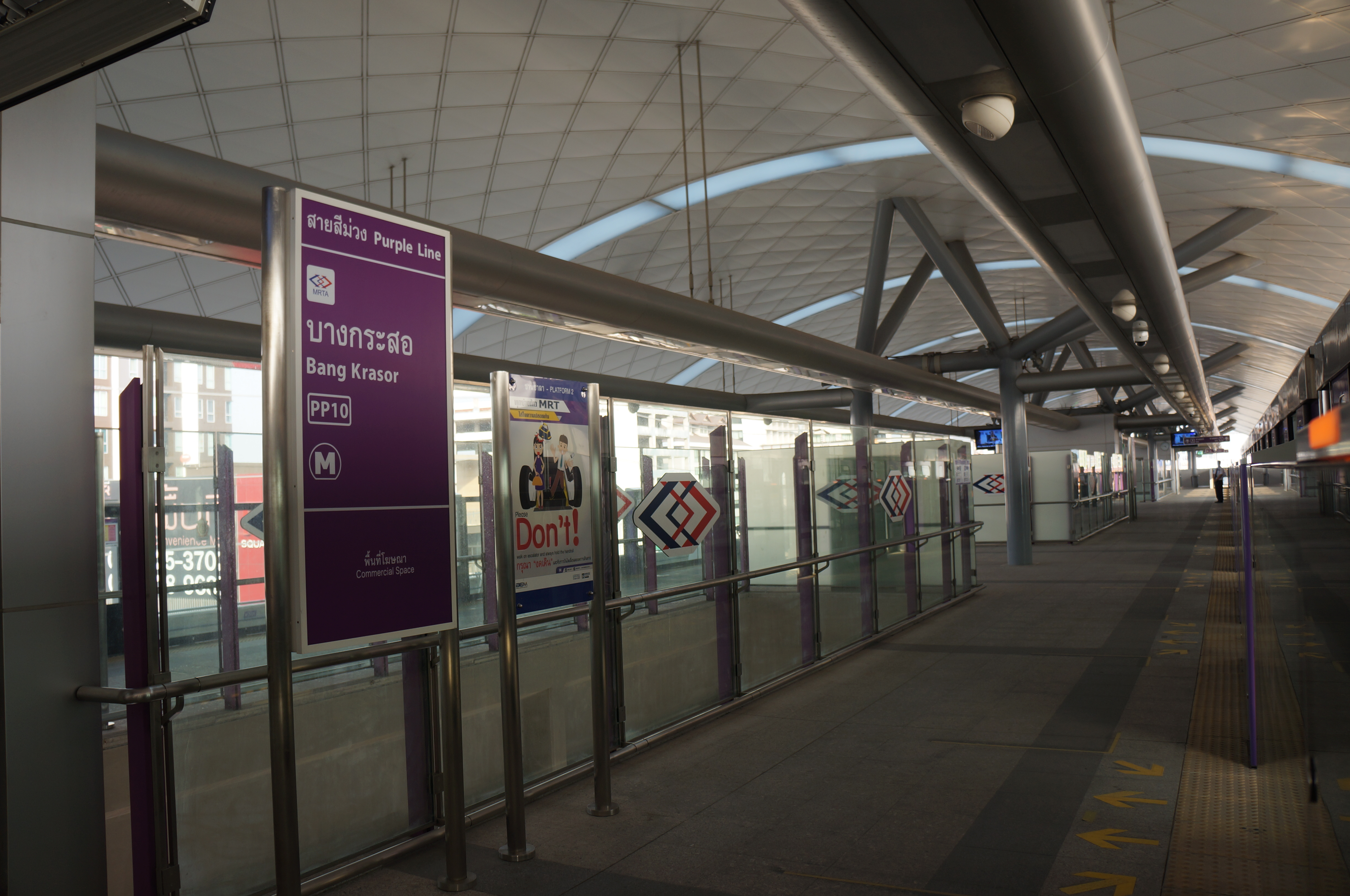 201701 Bang Krasor Station